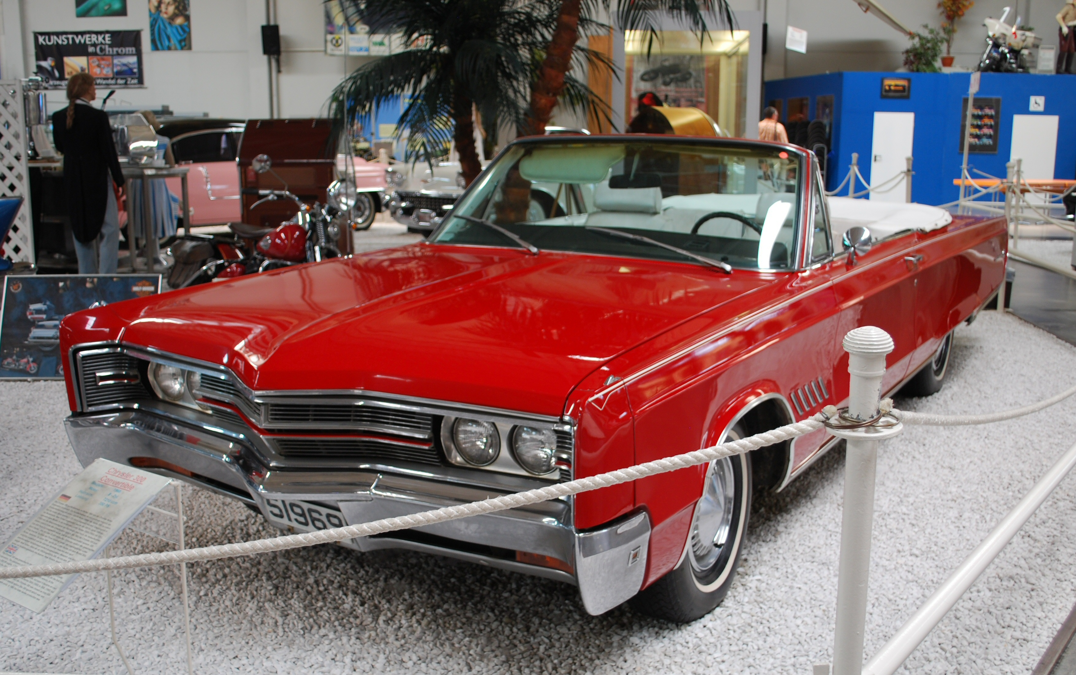 1968 Chrysler 330 Convertible at the Auto & Technik Museum, Sinsheim, 6/11.